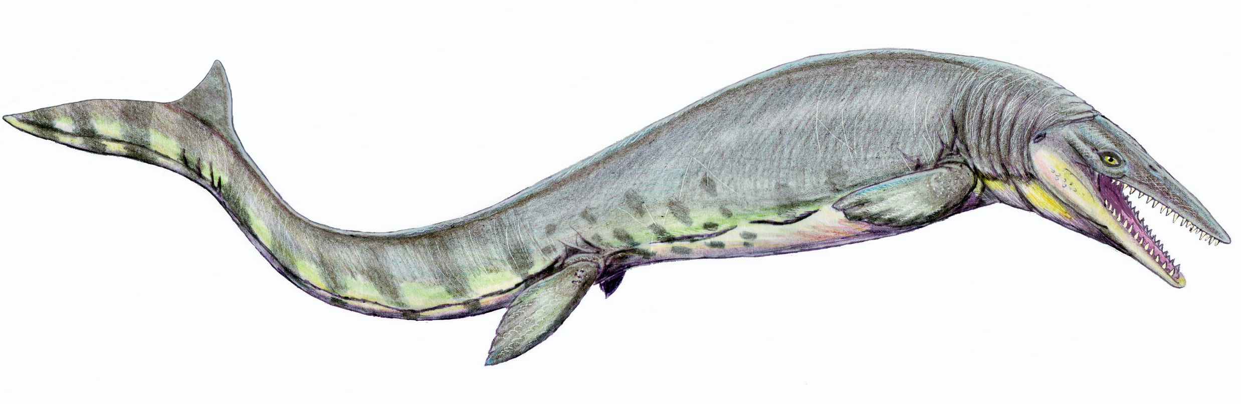 Tylosaurus pembinensis, aka "Bruce", from Campanian of Canada. Formerly Hainosaurus pembinensis